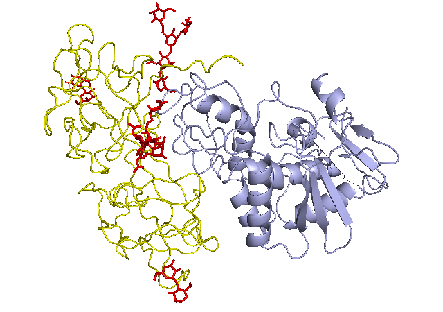 Created by User:Bstlee using Pymol.